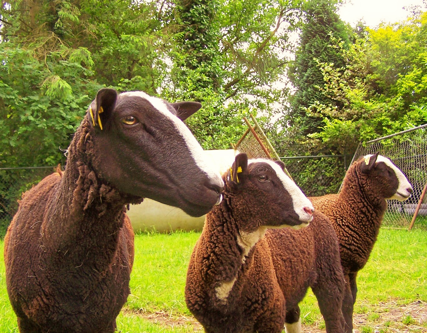 Zwartbles sheep.